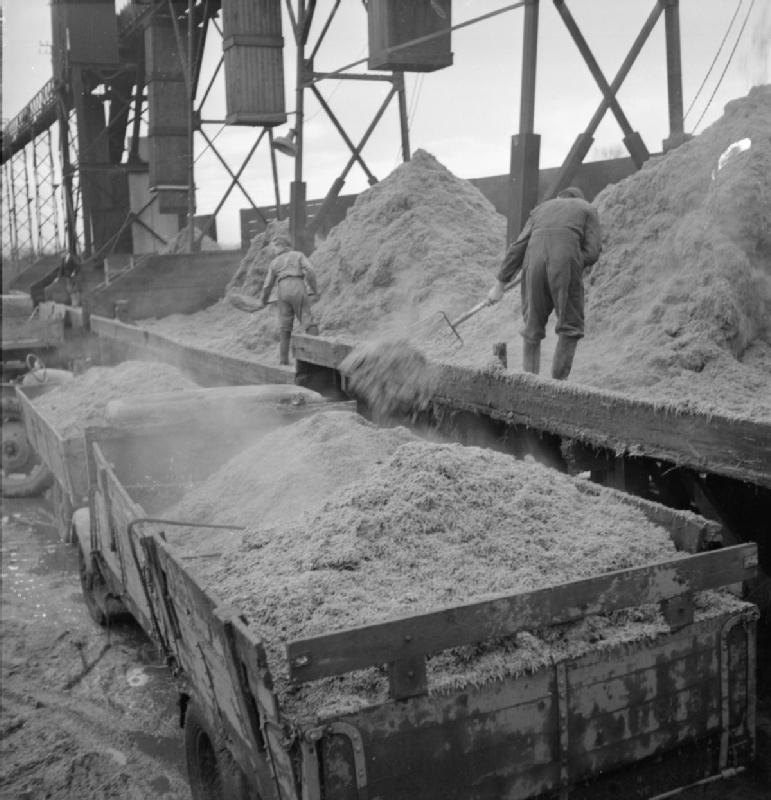 Producing Your Sugar- the Growth and Processing of Sugar Beet in Britain, 1943 Workers at this sugar beet factory shovel wet beet pulp into trucks for transport back to the farms which supplied the beet in the first place. Farmers are supplied with free beet pulp in proportion to the amount of beet they originally supplied.